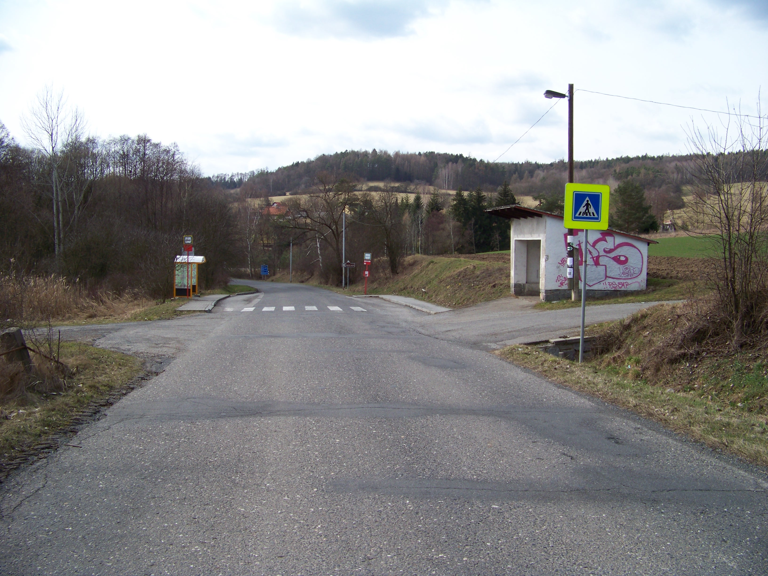 Týnec nad Sázavou-Čakovice, the Czech Republic.